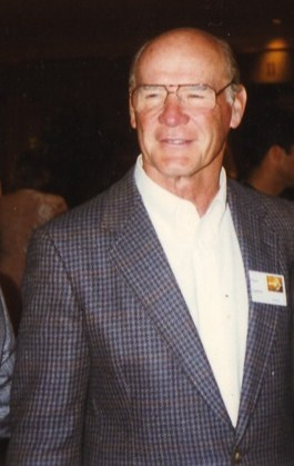 NFL player and coach Tom Landry